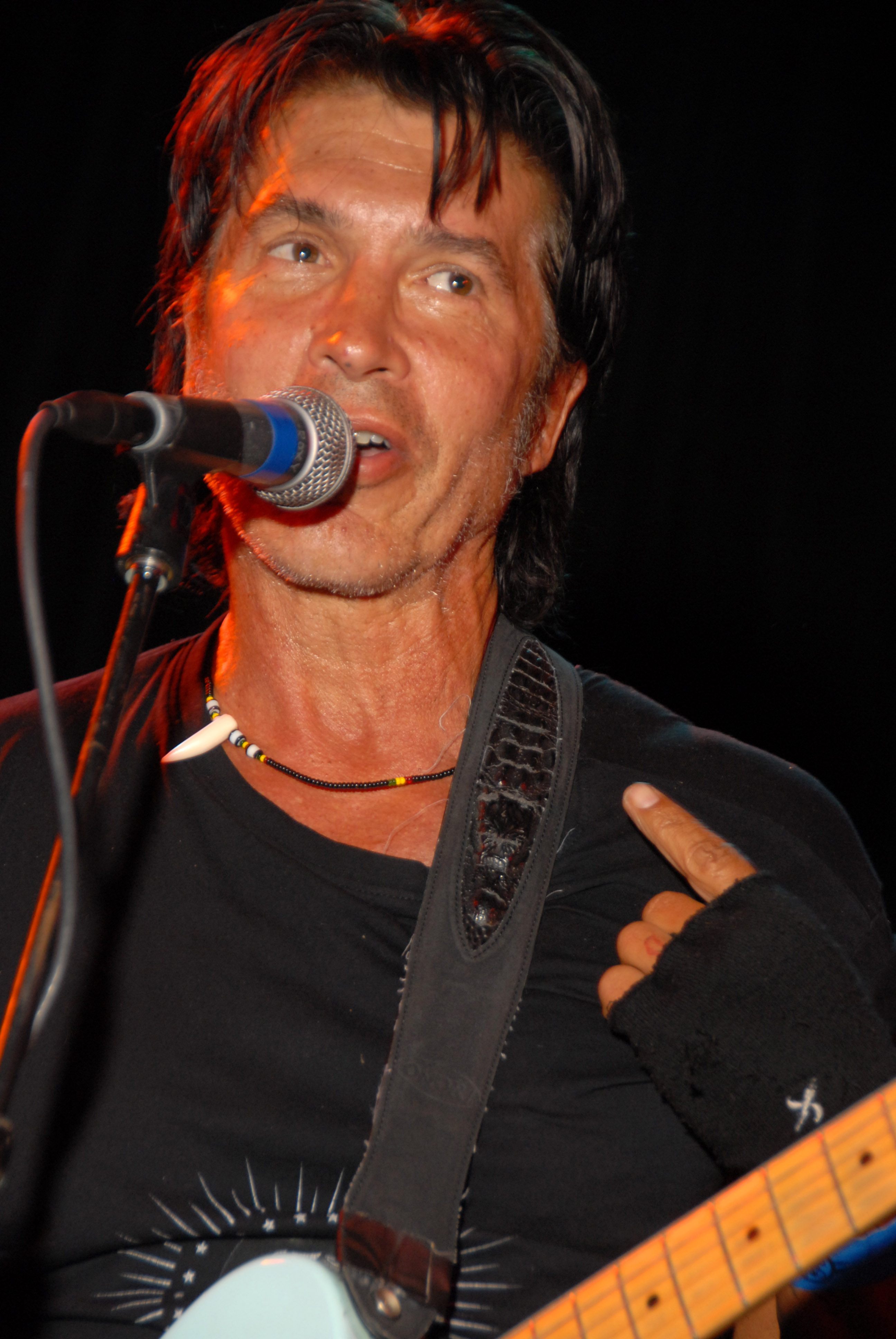 George Lynch performing at The Roxy, West Hollywood, CA on Oct. 11, 2009 - Photo by Glenn Francis of